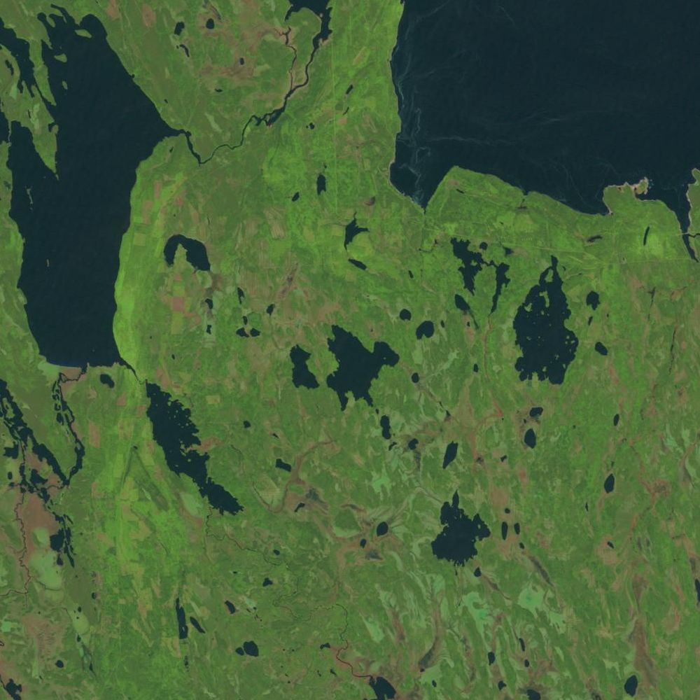 Suavjärvi impact crater in Karelia. Lake Suav'yarvi is in the center, surrounded by (clockwise): Lake Segozero (largest, in the upper right corner), Sukozero, Pyul'vyas'yarvi, Eningilambi and Seletskoye (large, in the upper left corner).